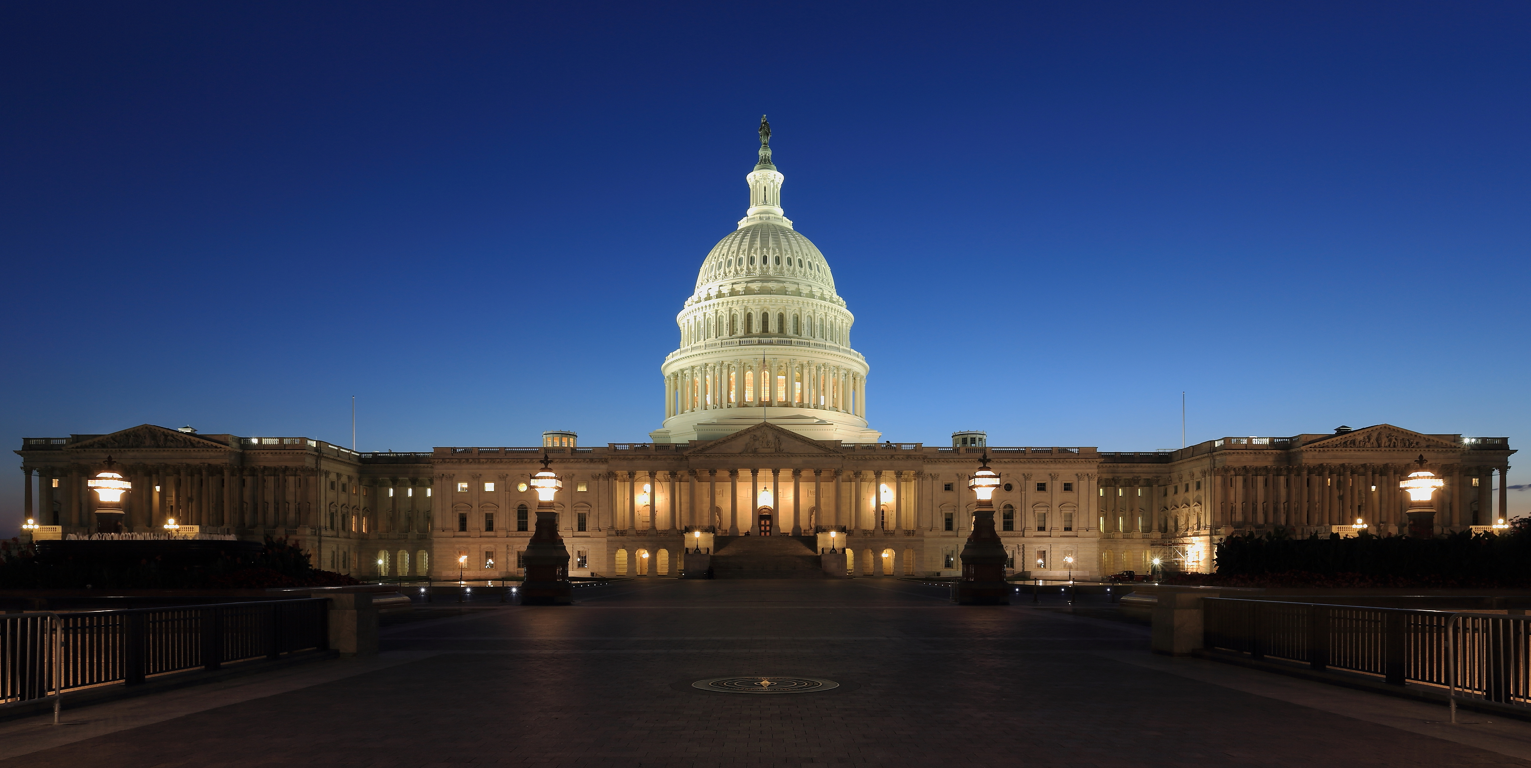 US Capitol at dusk as seen from the eastern side